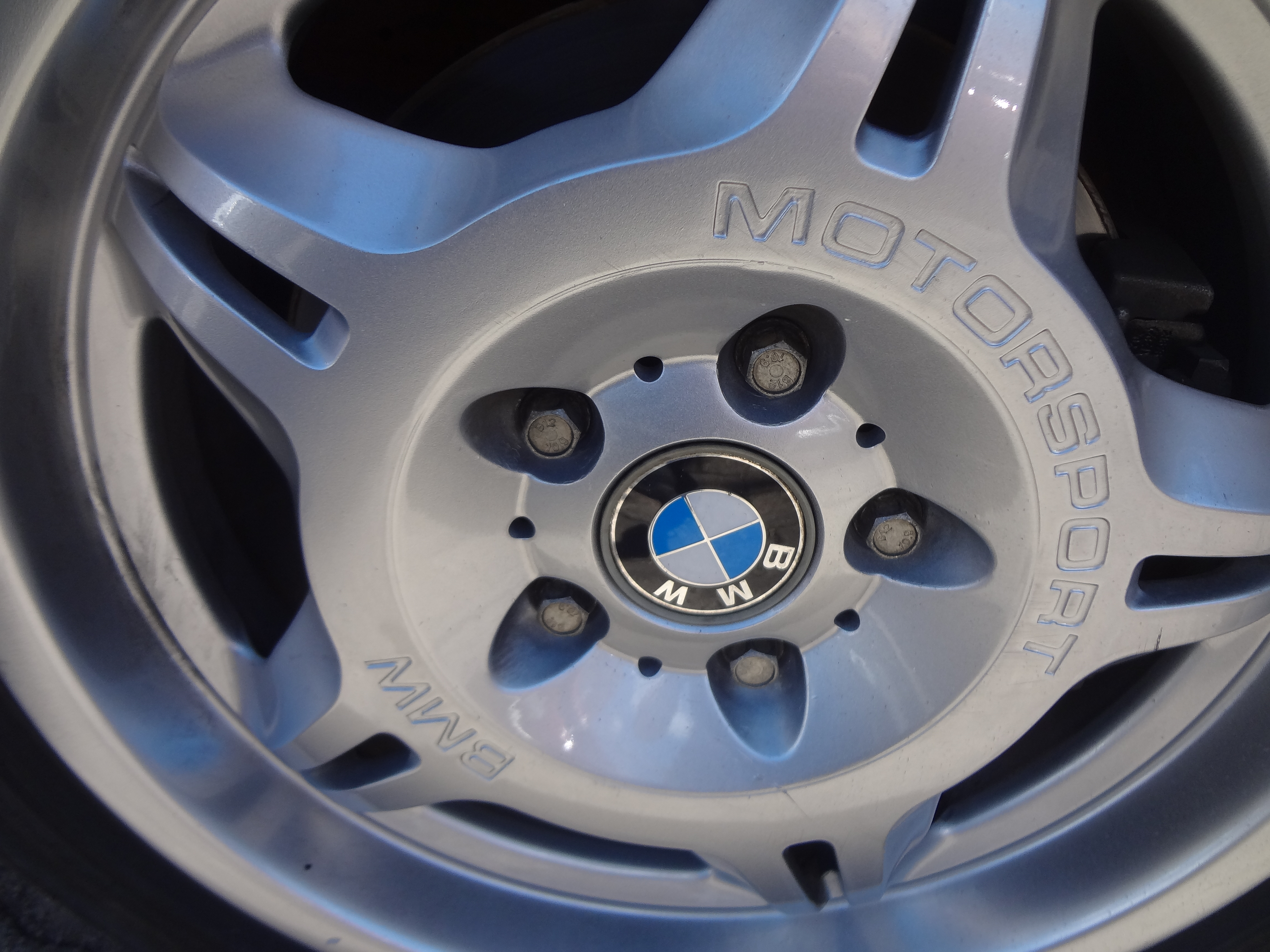 (BMW) (motorsport) tire, hubcap. Photography by David Adam Kess